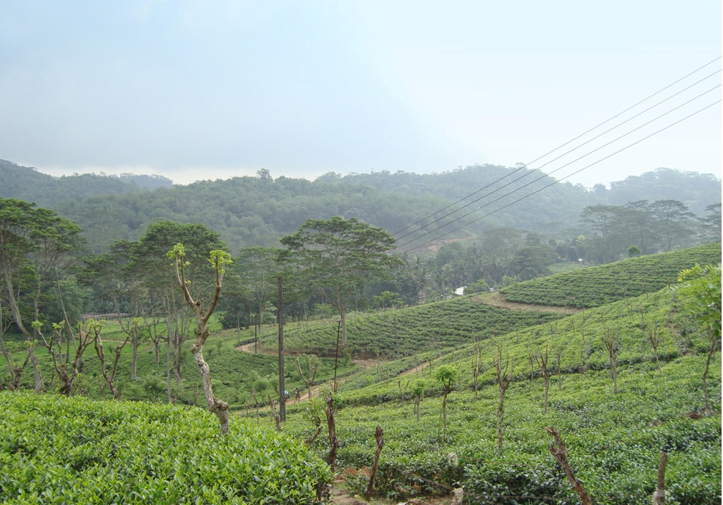 Ingiriya Agriculture02